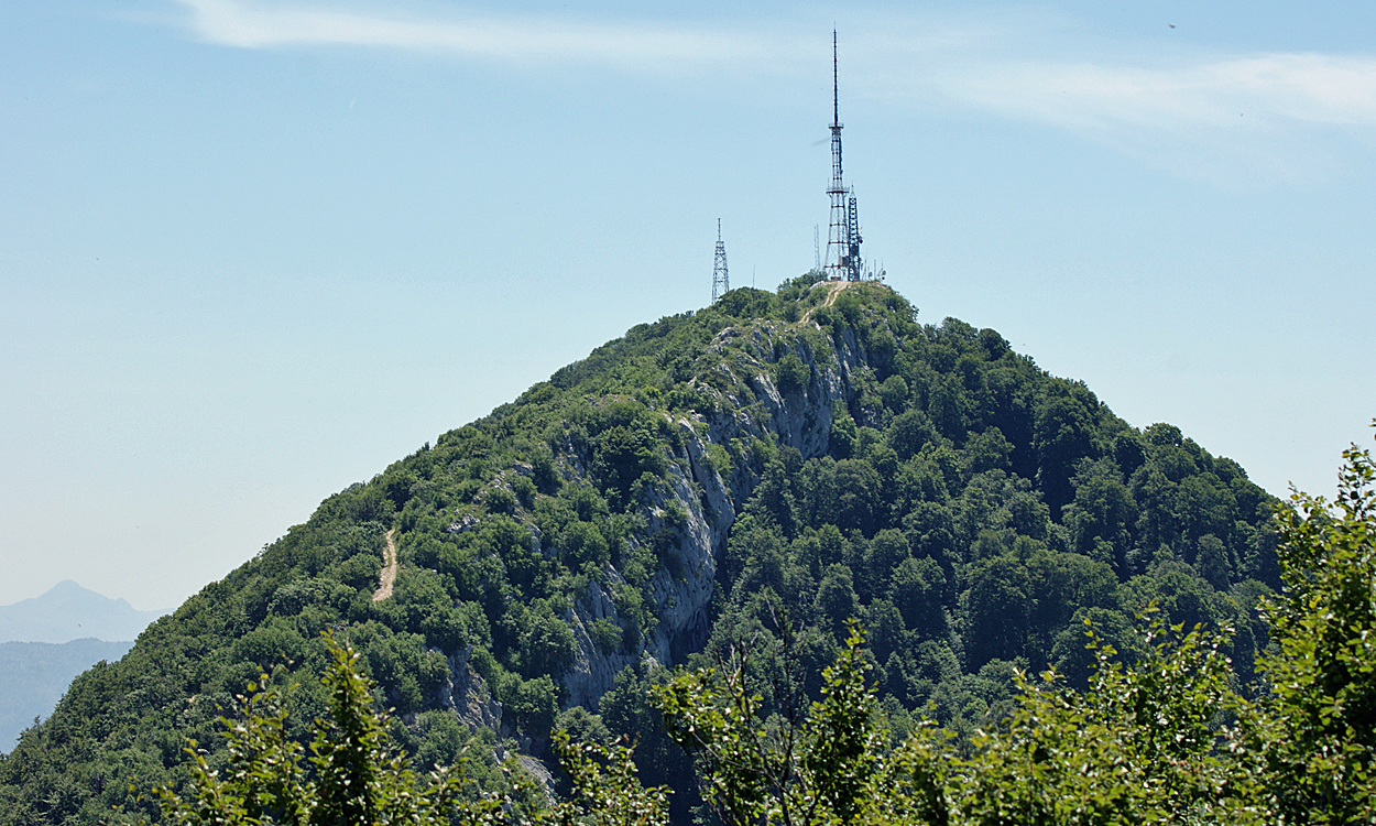 Peak of Mount Dajti (1613 m), Albania, from Maja e Tujanit